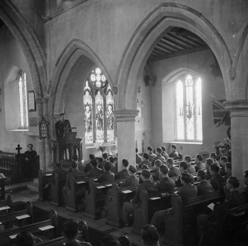 Thanksgiving Day Service Held in English Country Church- Americans in Cransley, Northamptonshire, England, UK, 23 November 1944 Men of the US Army Air Corps listen to a sermon on 'The Source of our Strength' during a Thanksgiving service at Cransley in Northamptonshire. The sermon is being given by Chaplain Ward J Fellows. Just visible to the left of the pulpit is Reverend Greville-Cooke, the vicar of Cransley.